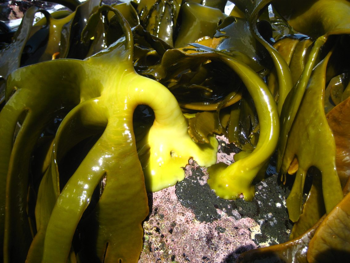 Photo of Durvillaea antarctica